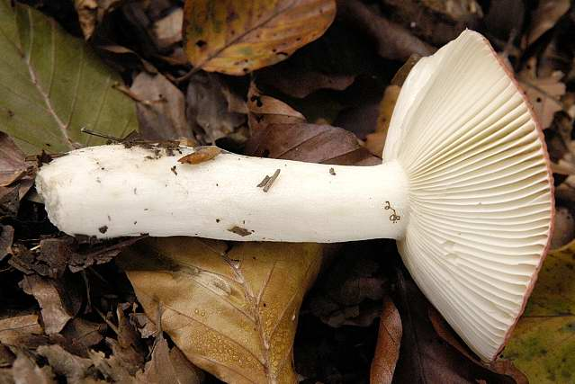 Russula spec. (maybe Russula rosea) from Commanster, Belgian High Ardennes The determination of the species shown in this picture has been verified.